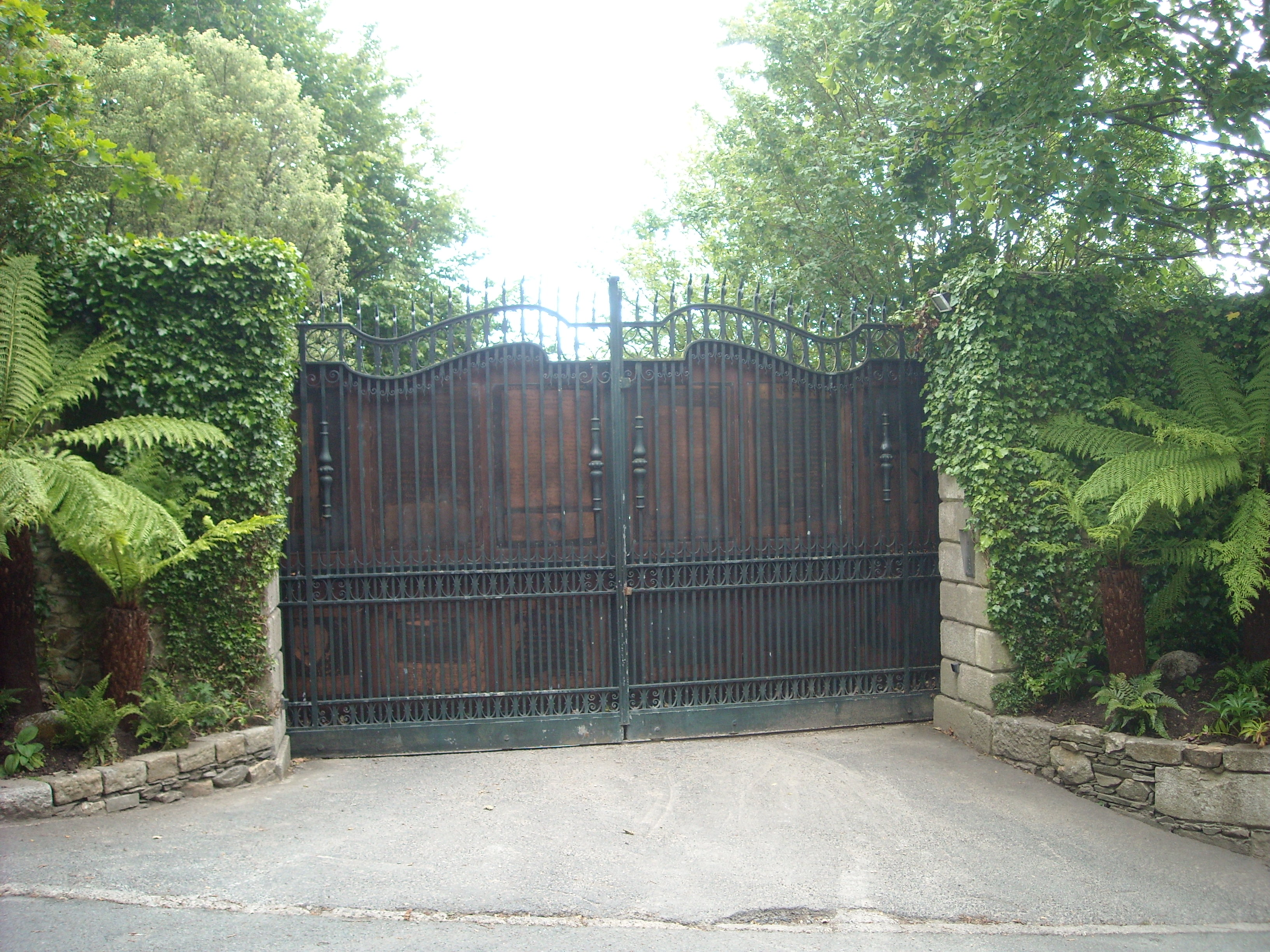 The entrance gate to the Bono's house on Vico Road in Dalkey, Ireland.